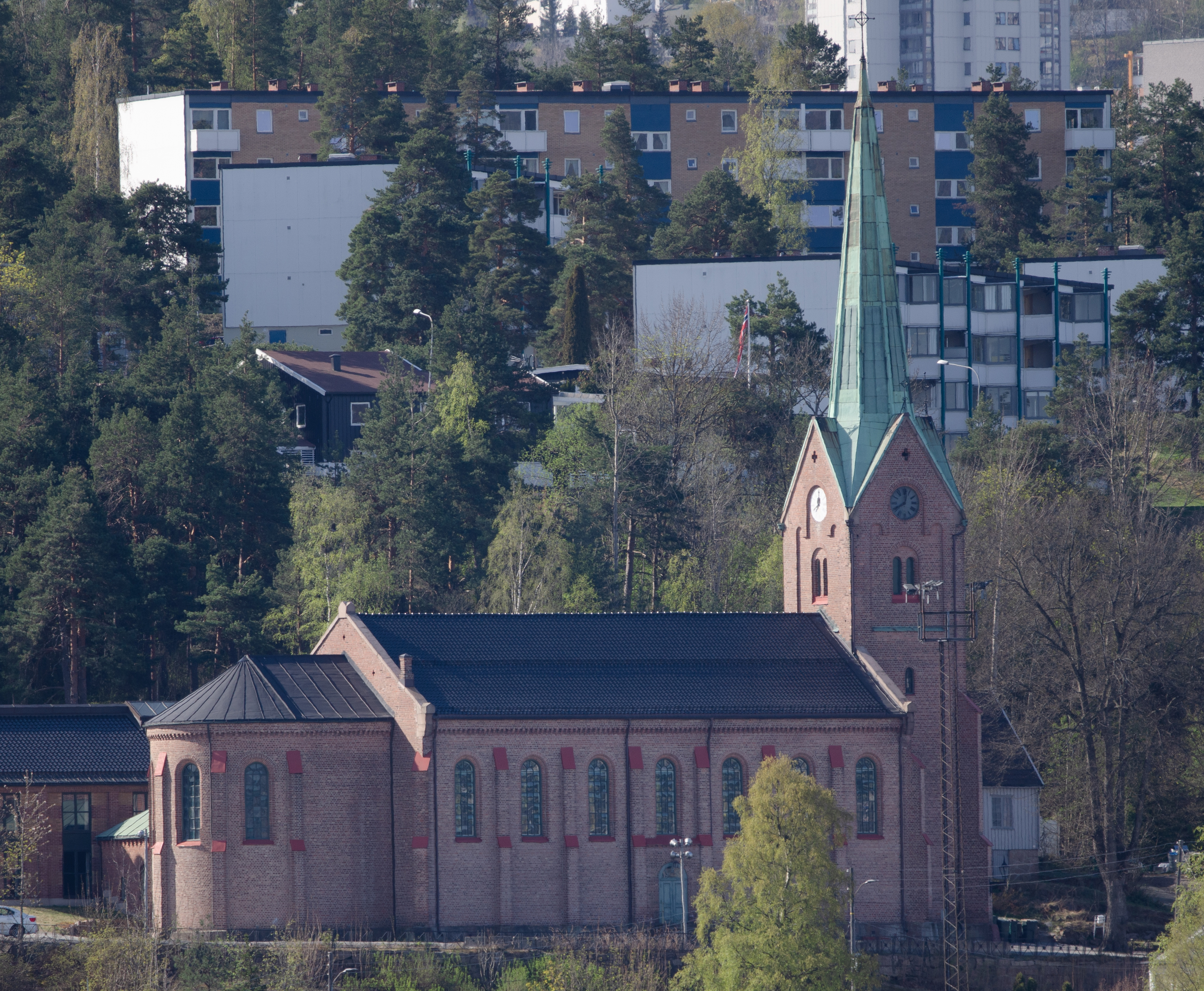 Tangen church in Drammen, seen from the Fjord park 1.3 km to the north.